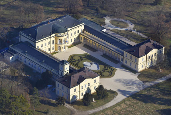 Károlyi castle, Fehérvárcsurgó, Fejér county, Hungary, aerial photography